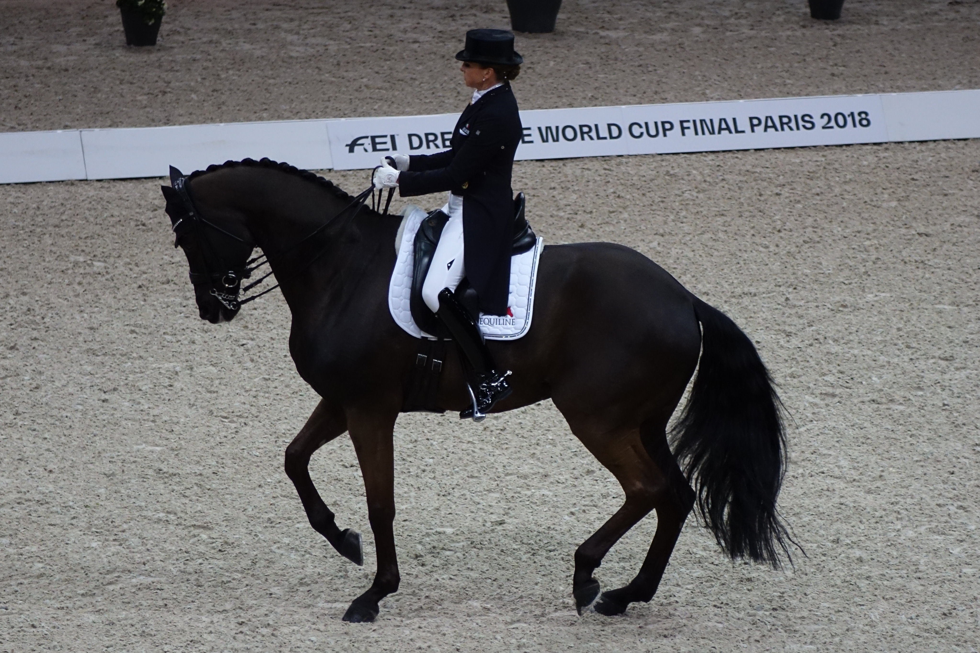 FEI WORLD CUP DRESSAGE FINALS PARIS 2018 Dorothee Schneider & Sammy Davis Jr. (DSP)